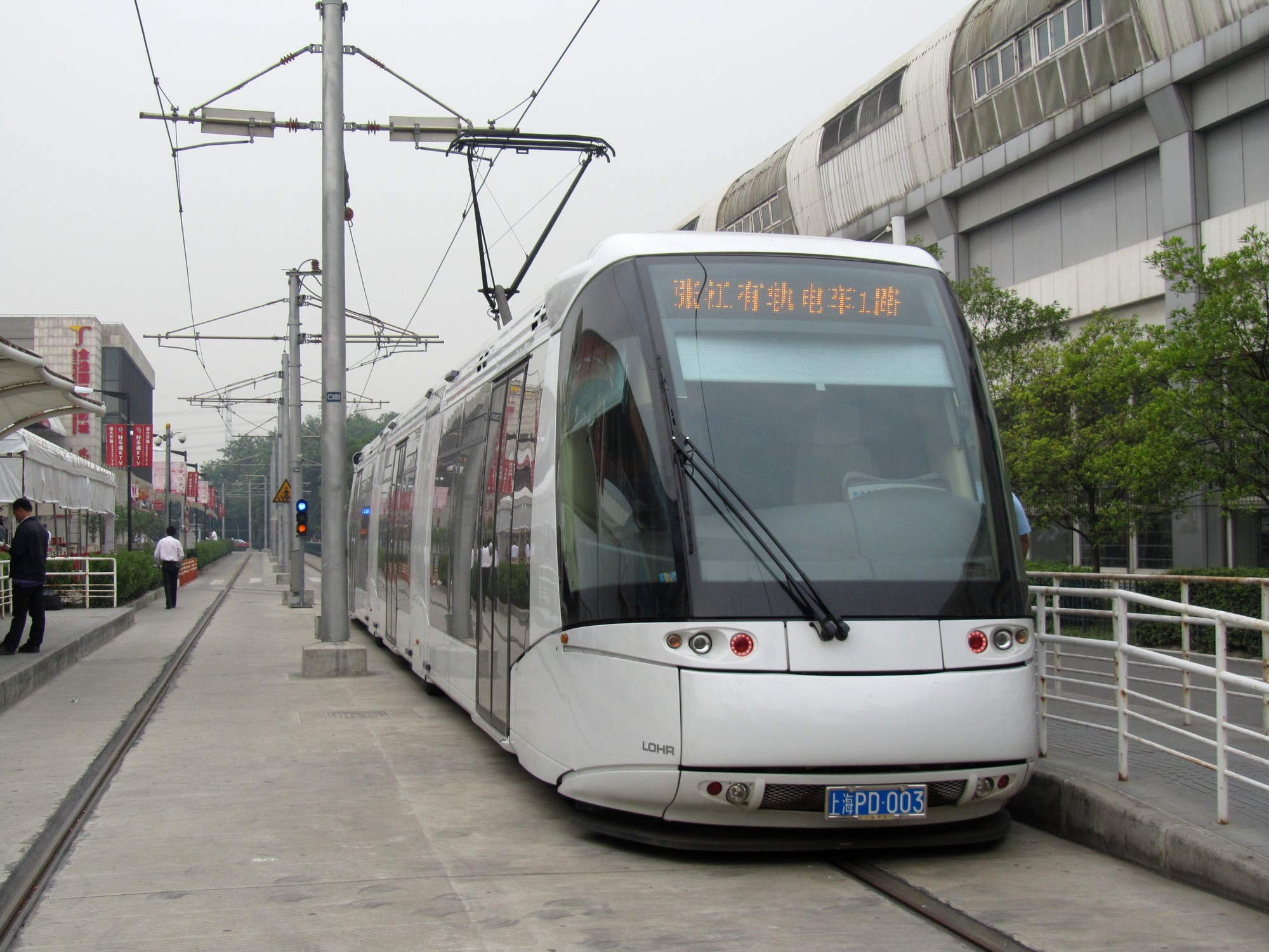 LOHR Translohr STE 3